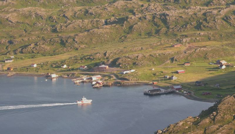 The local transport boat is coming to dock. Nervei, Finnmark, Norway.